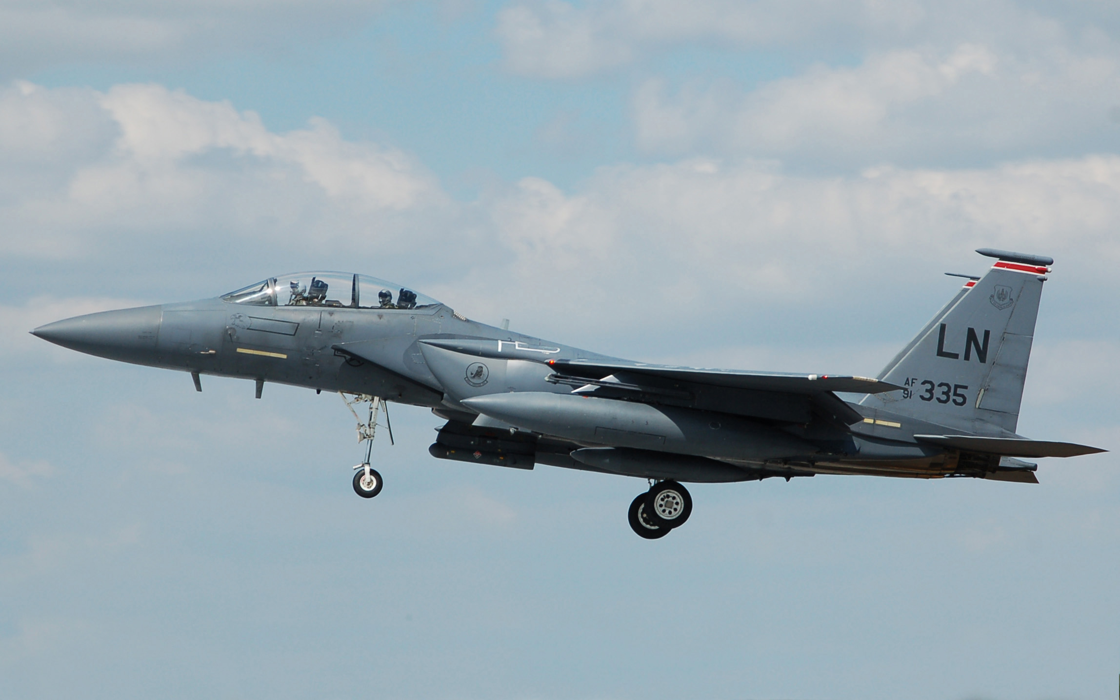 USAFE McDonnell Douglas F-15E Strike Eagle (code LN/91-335) arrives for the 2014 Royal International Air Tattoo, RAF Fairford, Gloucestershire, England. LN means Lakenheath (in England), 91 is the year the aircraft was ordered, and 335 is the last three digits of the serial. (Does AF mean Air Force?)